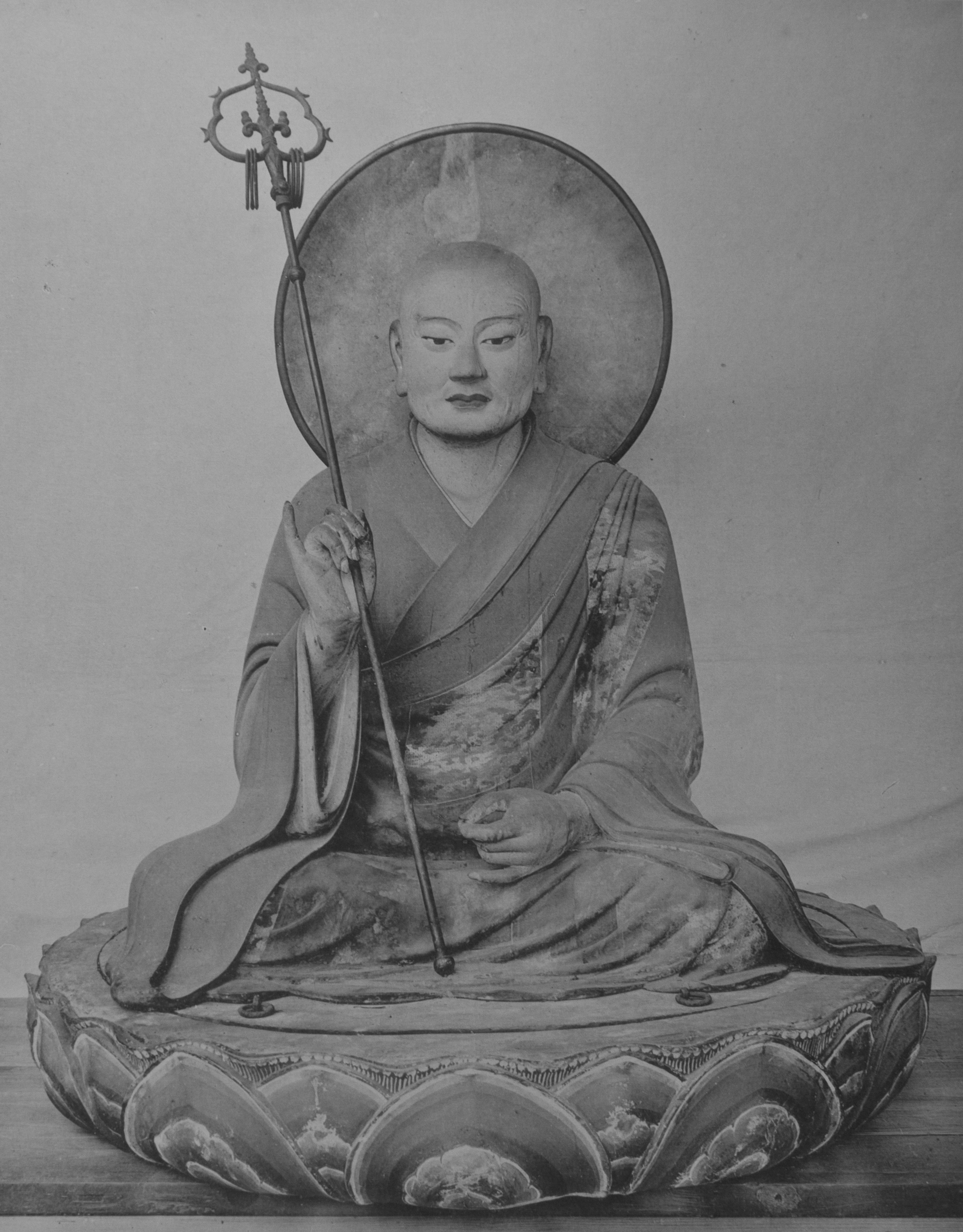 Todaiji, Nara, Japan